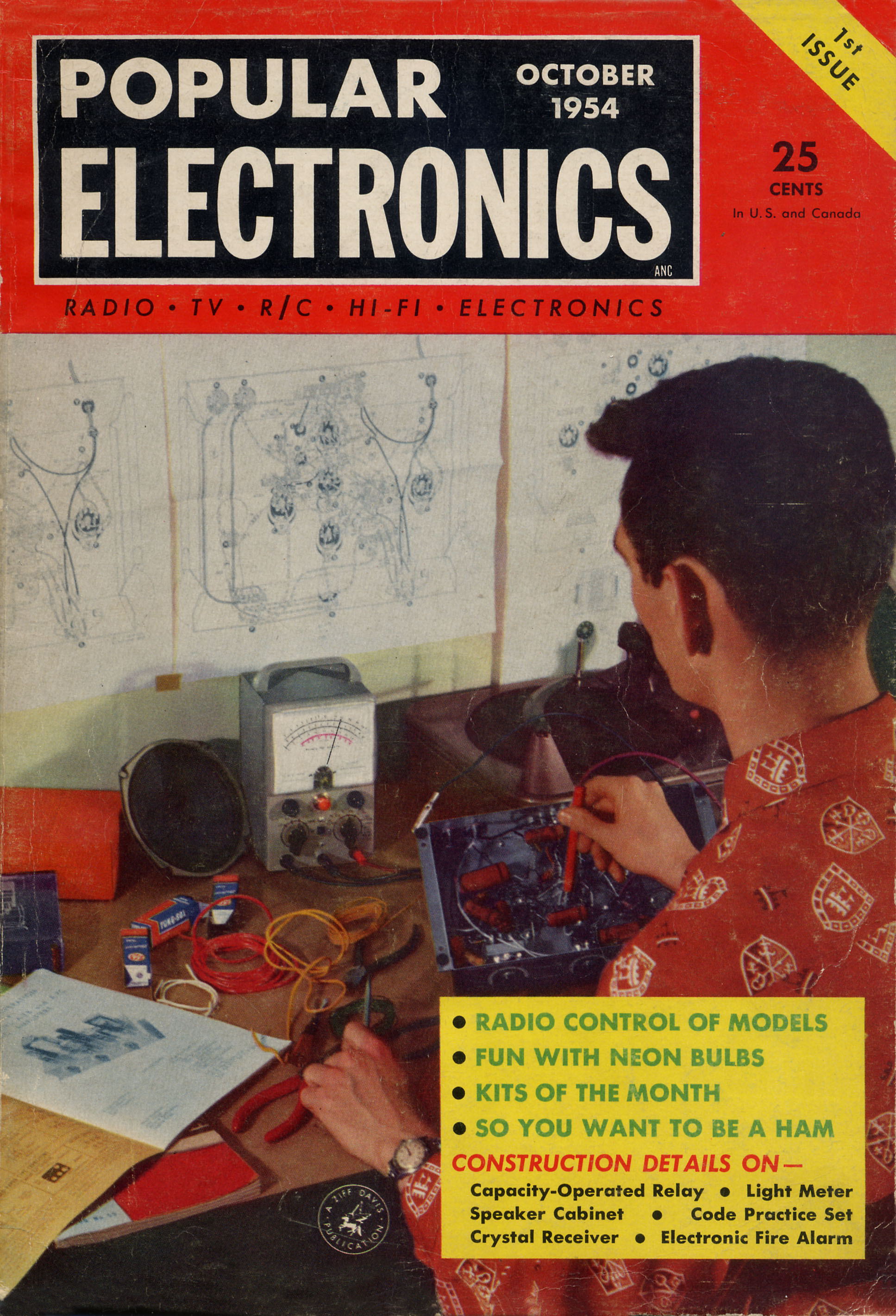 Cover of the premier issue of Popular Electronics magazine, October 1954, Volume 1 Number 1. The cover photo shows a young experimenter testing the Heathkit A-7B audio amplifier. Popular Electronics was created by the staff of Radio and Television News as a magazine for electronics hobbyist. The magazine was renamed Computers & Electronics in November 1982 and was published until April 1985. Gernsback Publications acquired the Popular Electronics title and used it on their Hands-On Electronics magazine starting in November 1988. This 6.5 by 9.5 inch (165 by 241 mm) magazine has 130 pages.